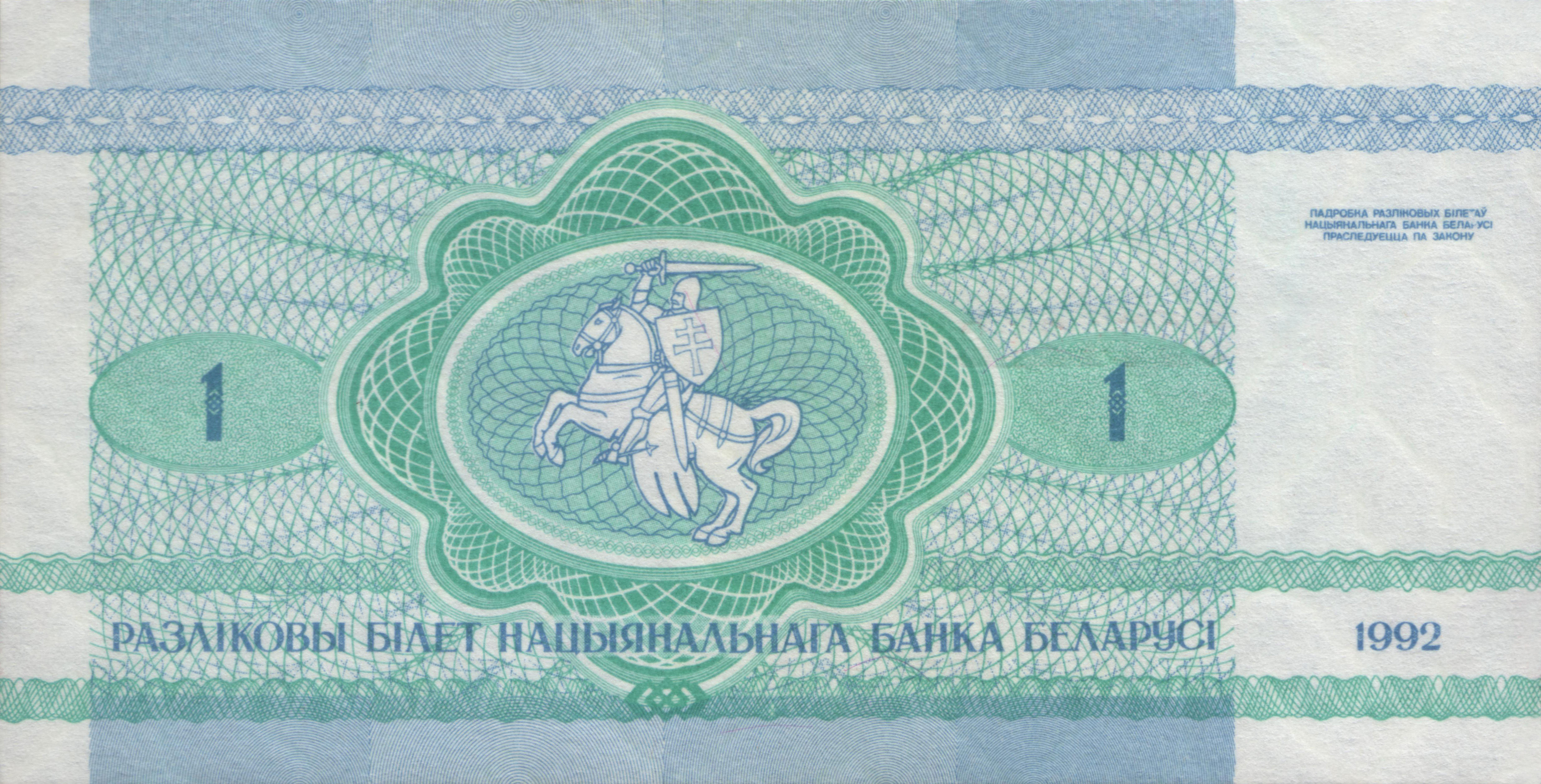 1992 Belarus 1 ruble bill. Reverse.